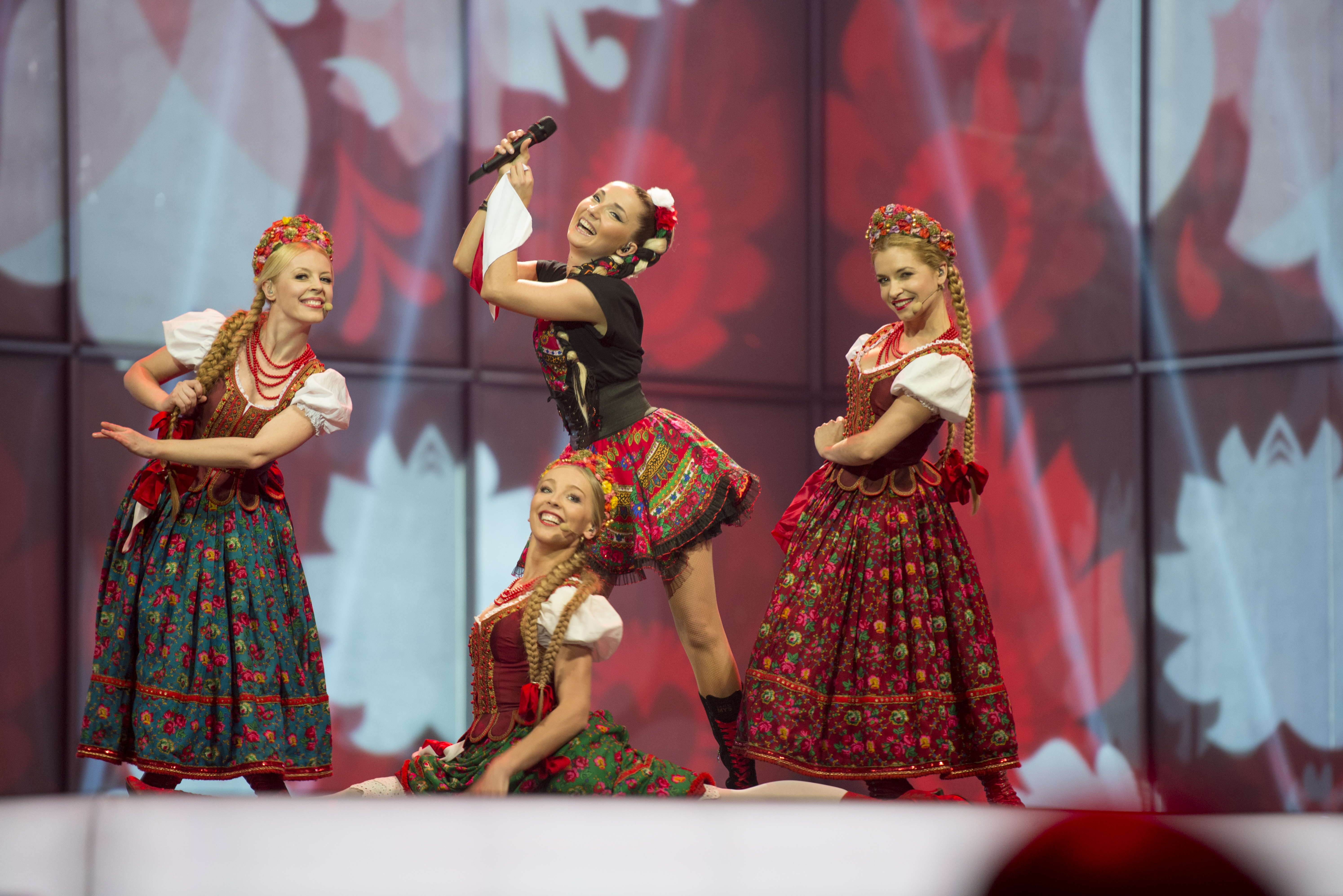 Donatan and Cleo representing Poland with the song "My Słowianie" during the first dress rehearsal of the second semi final of the Eurovision Song Contest 2014 Copenhagen. (Help translate this text)